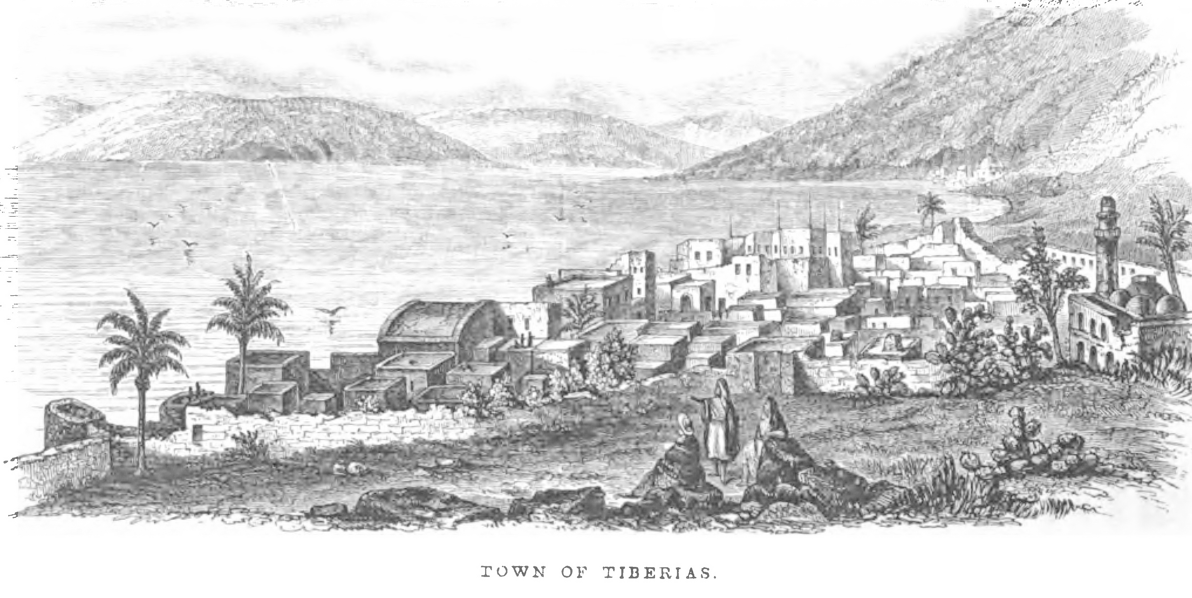 Town Of Tiberias